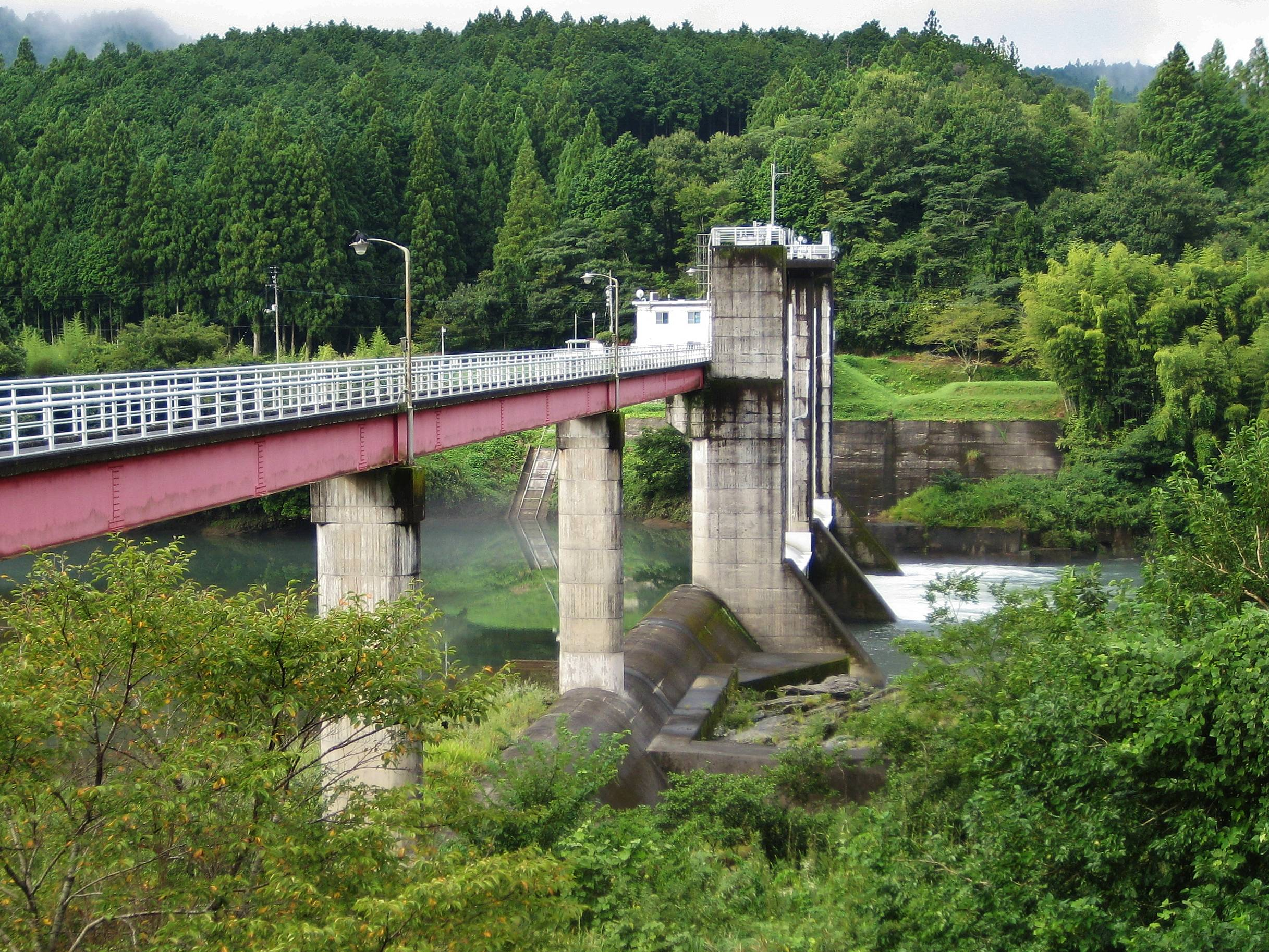 Yamazaki Dam.